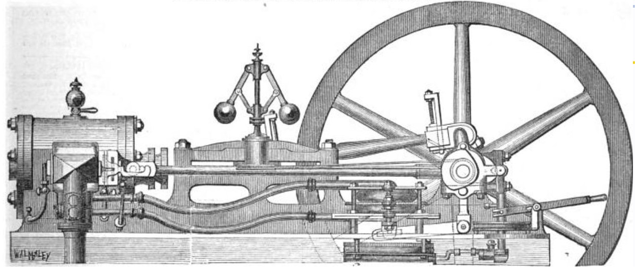 The Hugon stationary gas engine, taken from an advert in the Newspaper Press of 1871. This was the 2nd commercial internal combustion engine to be made, only the Lenoir engine being earlier. Other information This image is part of an advert that appears in several editions of the Newspaper Press in the late 1860s and early 1870s.